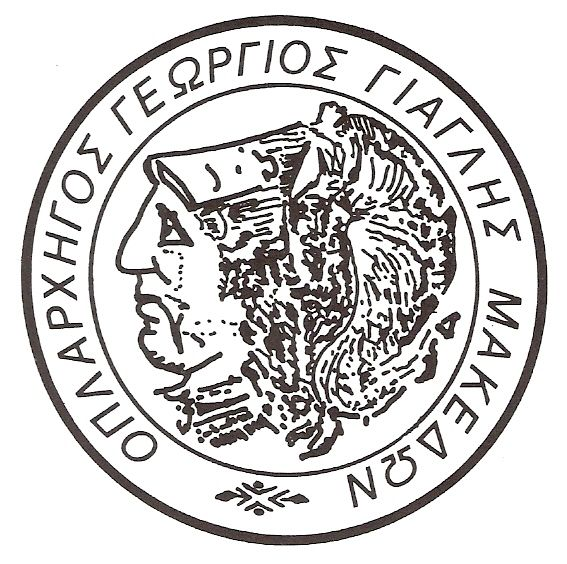 The Seal of Georgios Gianglis